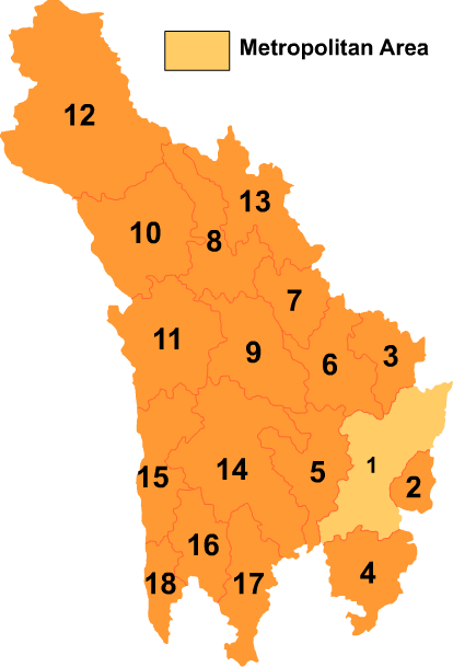 Map of Garzê in SIchuan province